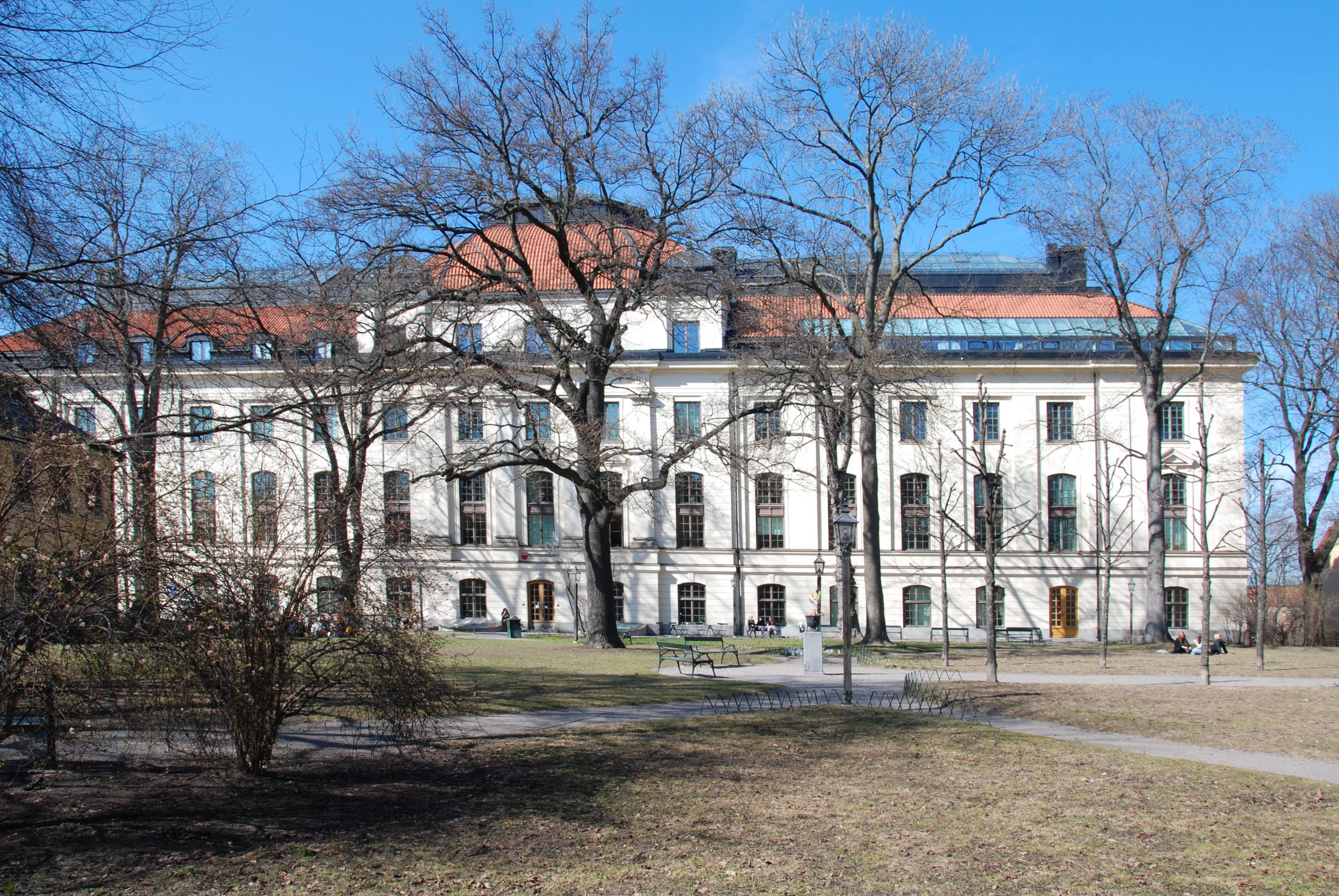 Spökparken.